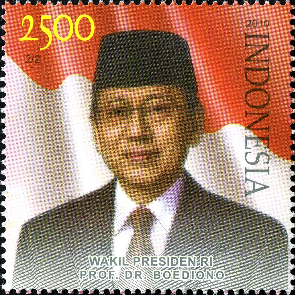 Stamps of Indonesia